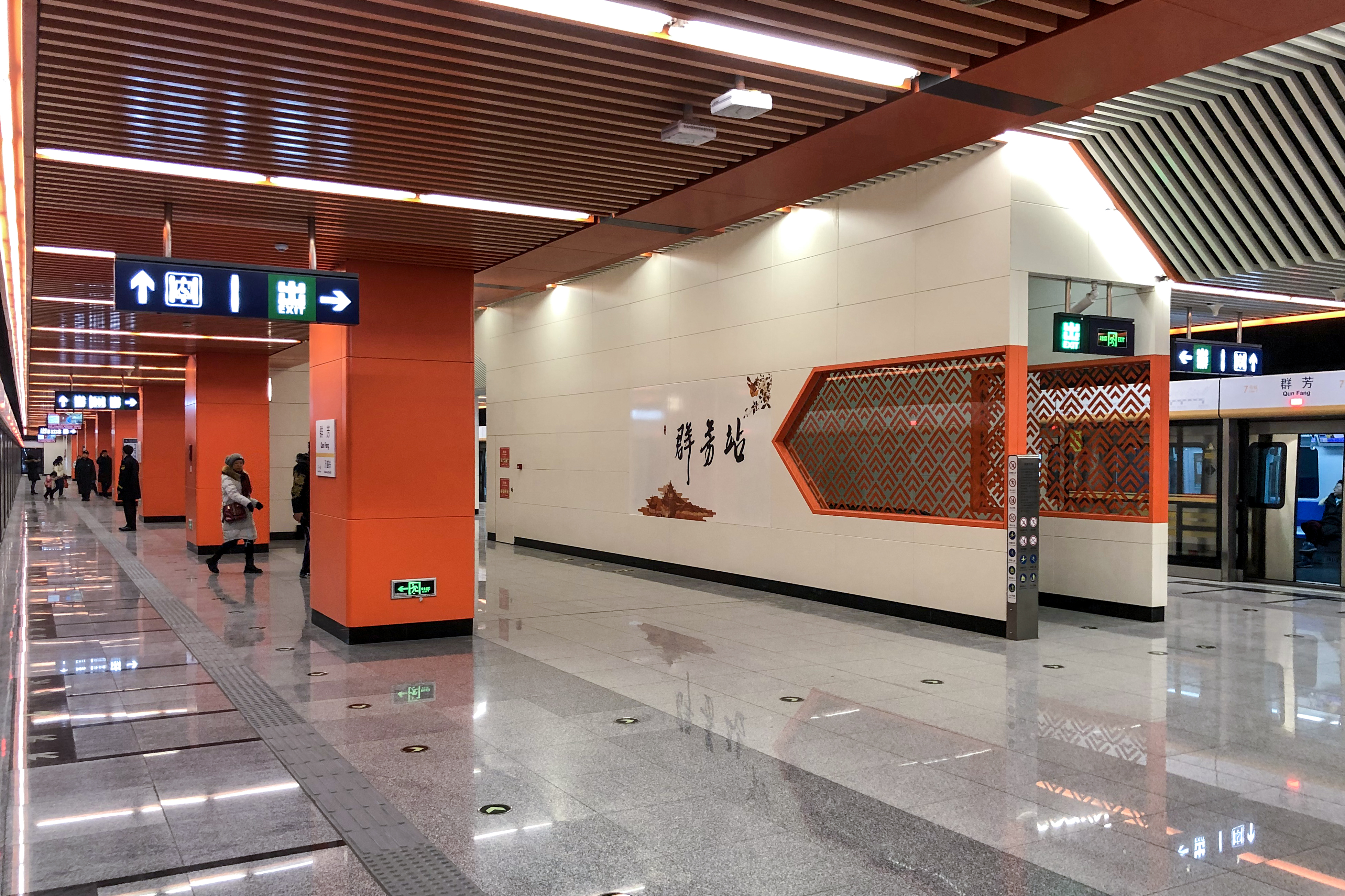 Kwan Fong Station... this name just reminded me of Kwai Fong.